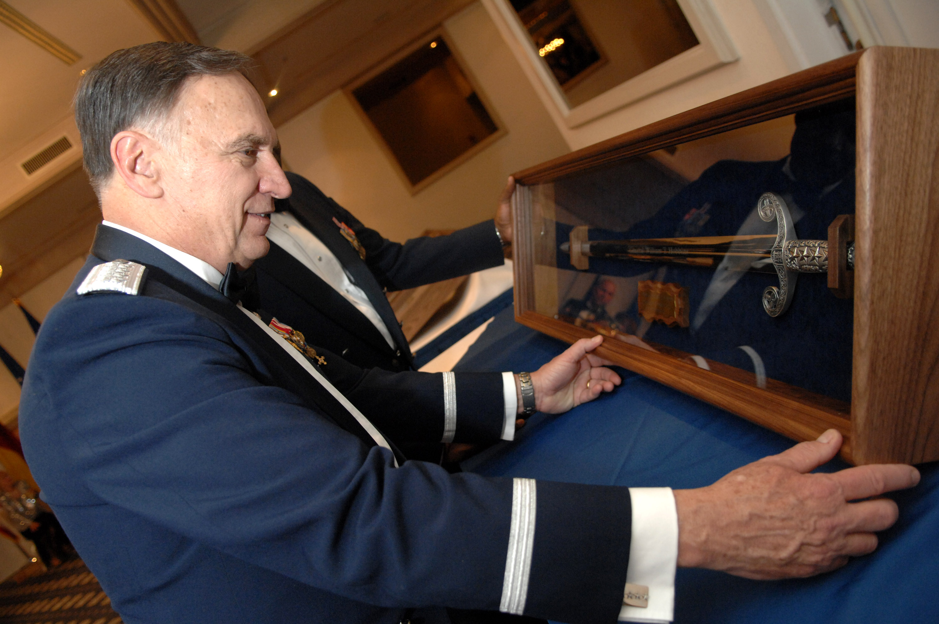 General William T. Hobbins, U.S. Air Forces in Europe commander, admires the sword he received during a USAFE Order of the Sword induction ceremony in his honor. Being inducted into the order is the highest honor an enlisted organization or command can bestow on an individual.